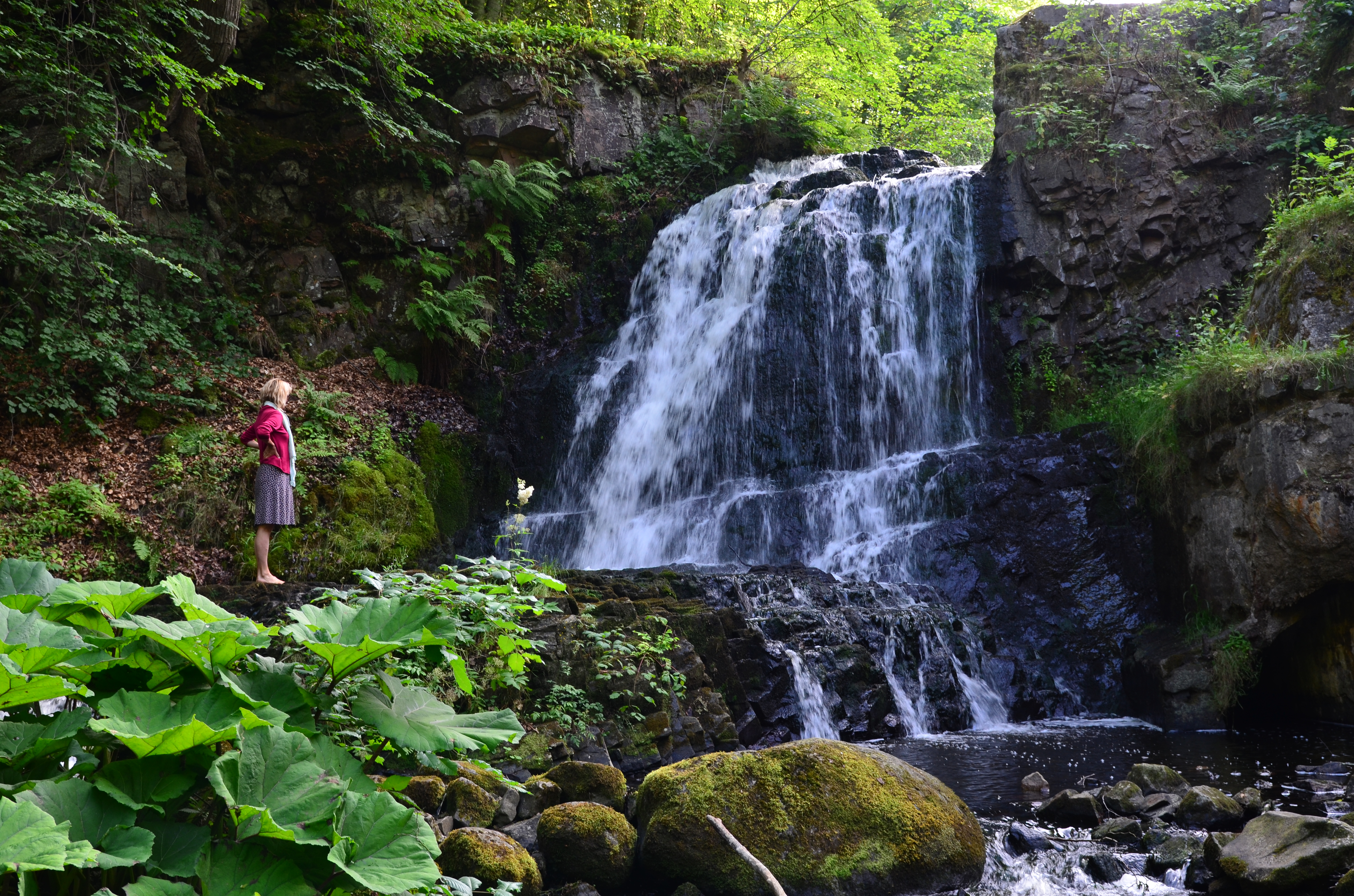 Nature reserve in Scania, Sweden. Old watermill Forsemölla.